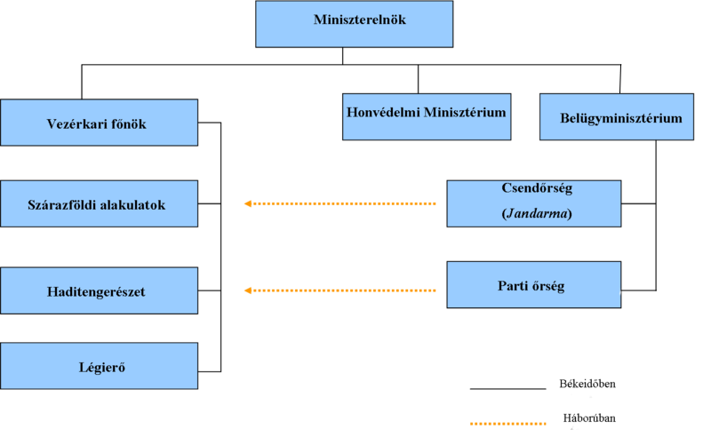 This is the Hungarian version of the file below